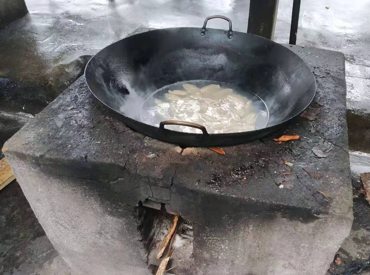 Cooking dumplings (饺子) with a wok on an outdoor stove in Shenzhen, China.